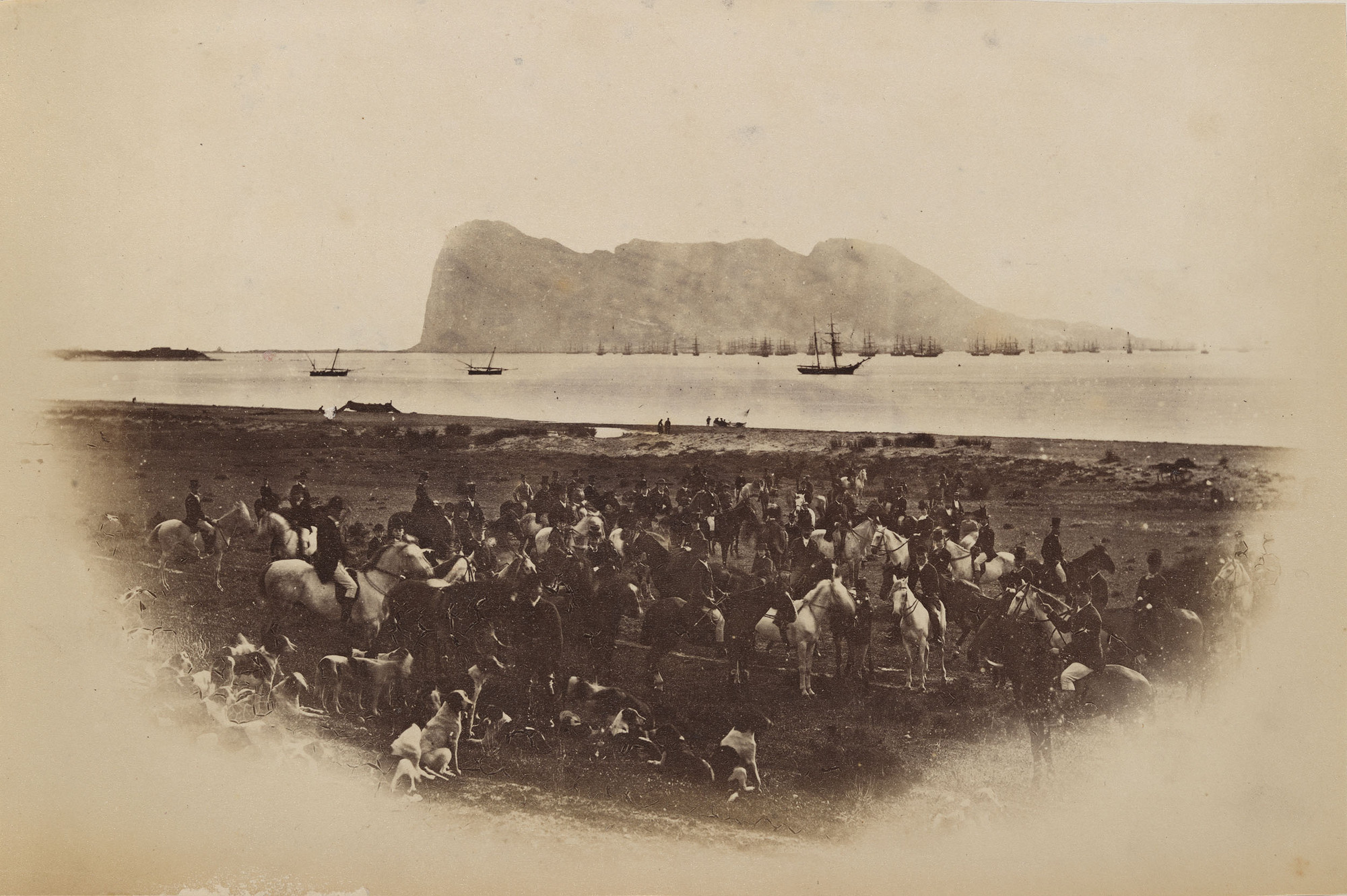 "Description: Photograph of hunt-dogs, huntsmen on horses and followers gathered near the sea shore: on the sea are numerouos sailing vessels; large rocky island behind. Photograph intentionally faded to create an oval border. Provenance: Album compiled by the Reverend J N Dalton (1839-1931) and presented to King George V."